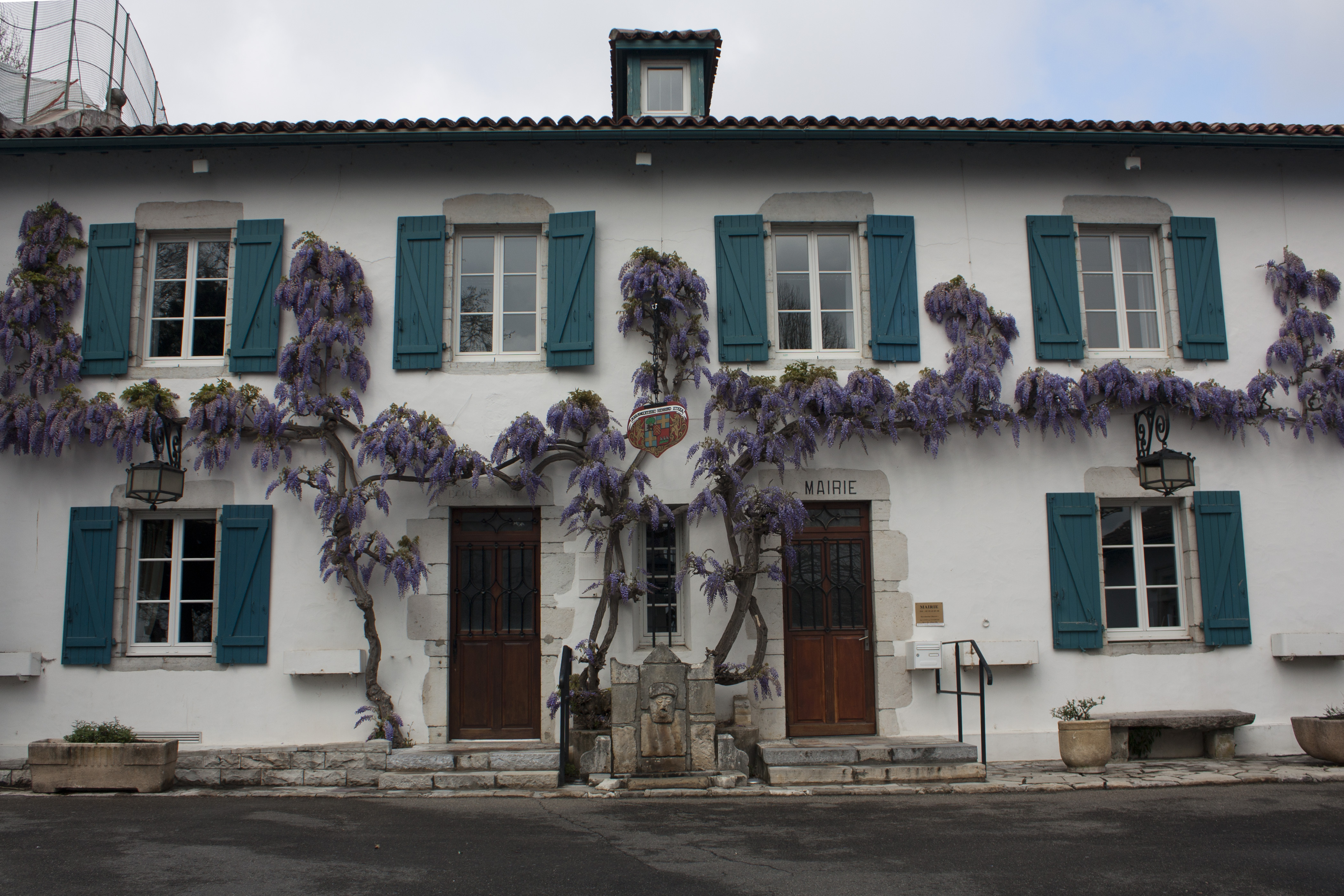 Town hall.